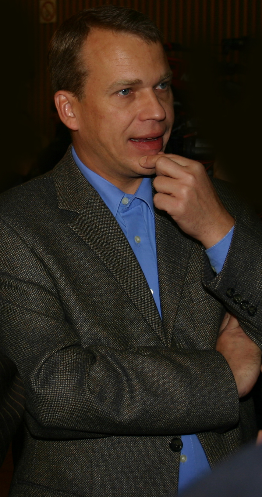 Ingolf Roßberg (FDP) mayor of Dresden (2001–2008), photographed at the city-hall in 2005, october 2nd